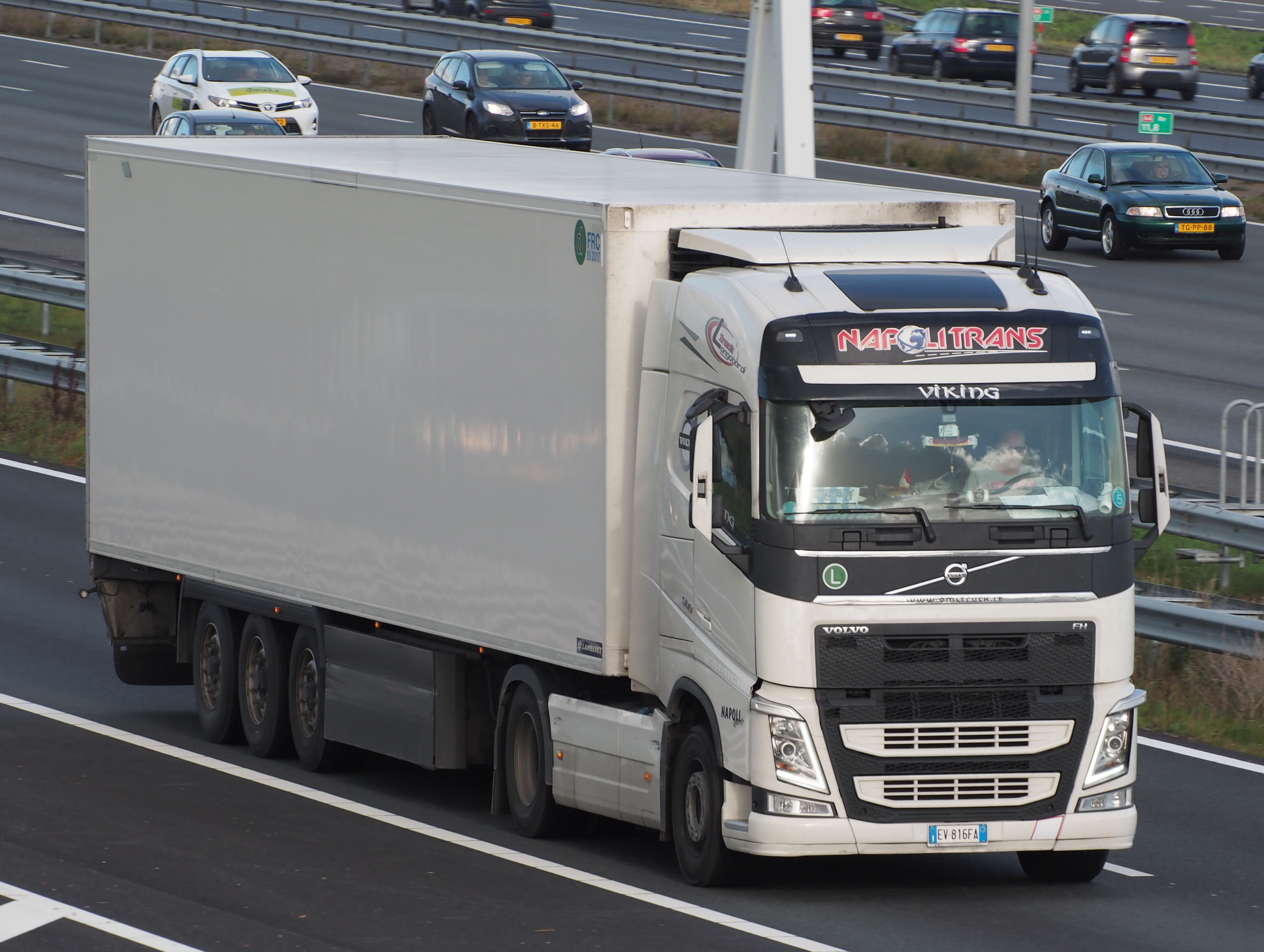 Photographed on the A4 near Hoofddorp, The Netherlands.